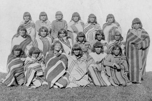 Hopi prisoners at Alcatraz Island for "seditious conduct" Jan. 3 to Aug. 7, 1895.